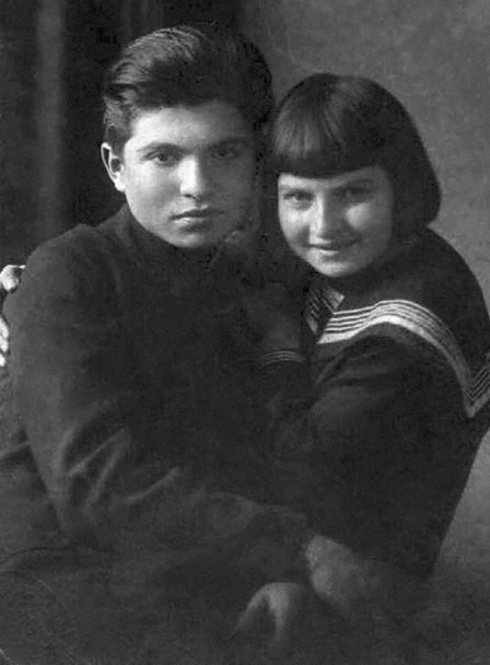 The Ukrainian-Russian pianist Emil Gilels and his sister the violinist Elizabeth Gilels.